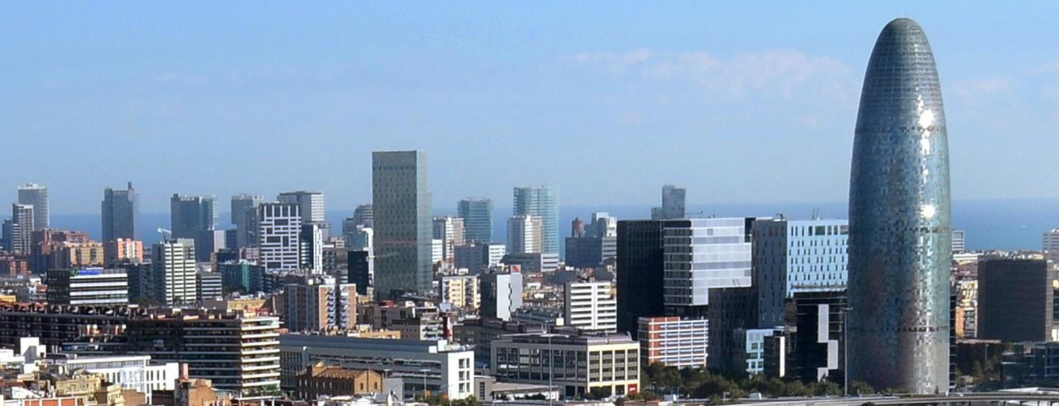 Barcelona, Spain, view over the city towards the coast with Torre Agbar, which is illuminate at night in the colours of the “F. C. Barcelona”